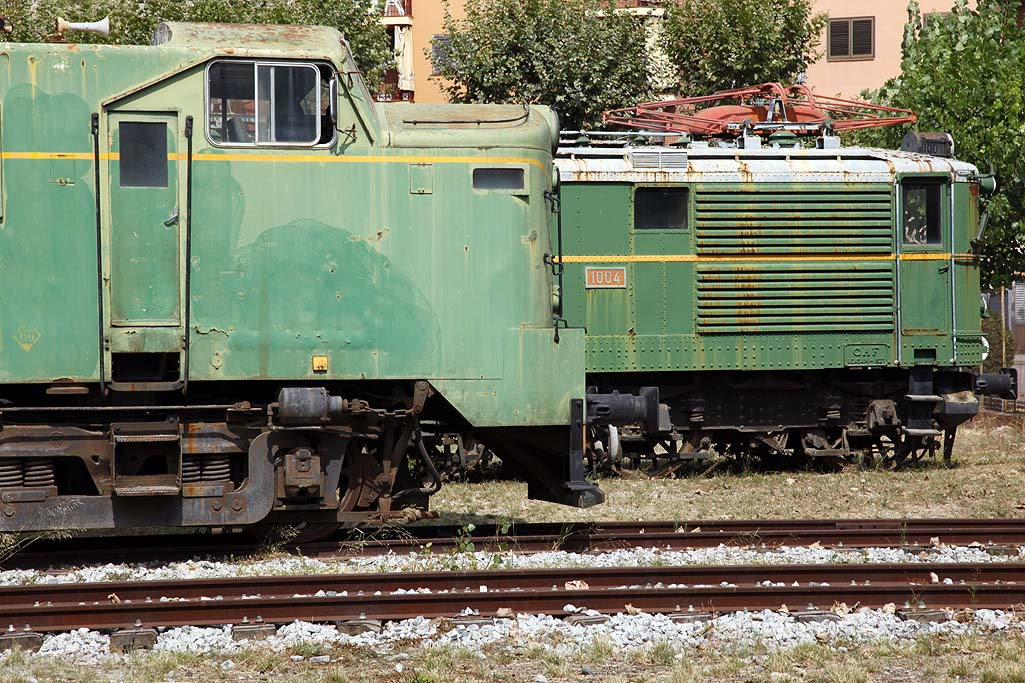 Electric locomotives at Catalonia Railway Museum